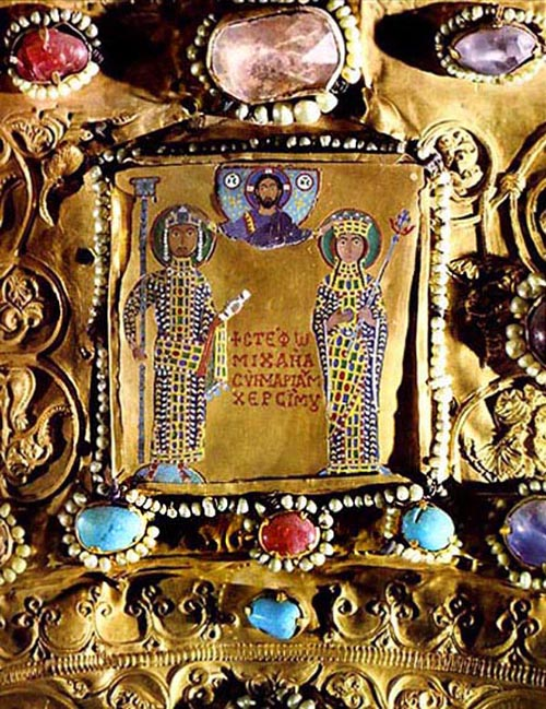 Khakhuli triptych, medieval artwork from Georgia. Emperor Michael VII Ducas and Empress Mary